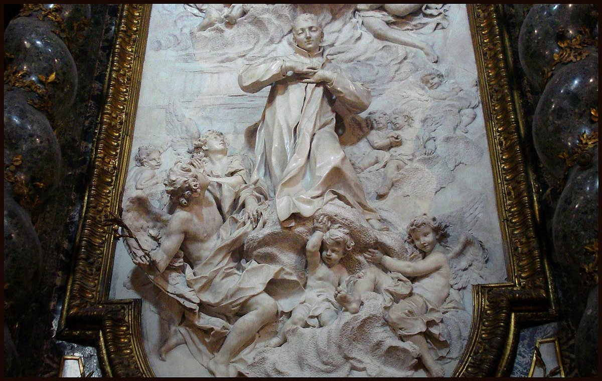 St. Aloysius Gonzaga in Glory, high-relief by Pierre Legros the Younger. Sant'Ignazio, Rome, Italy.